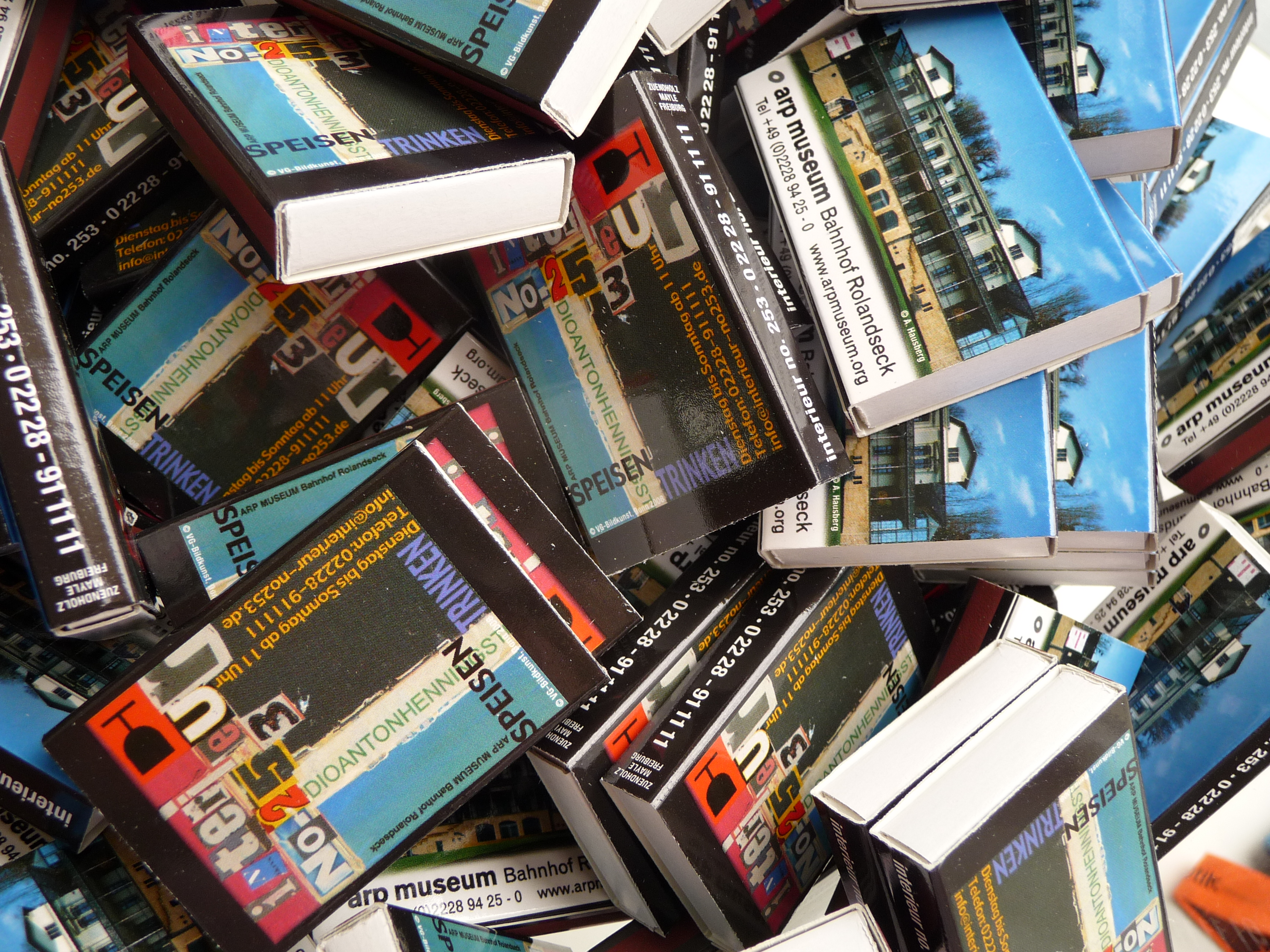 Matchboxes